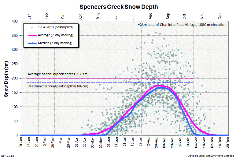 Average snow depth, Spencers Creek, near Charlottes Pass, Kosciusko National Park, Australia.